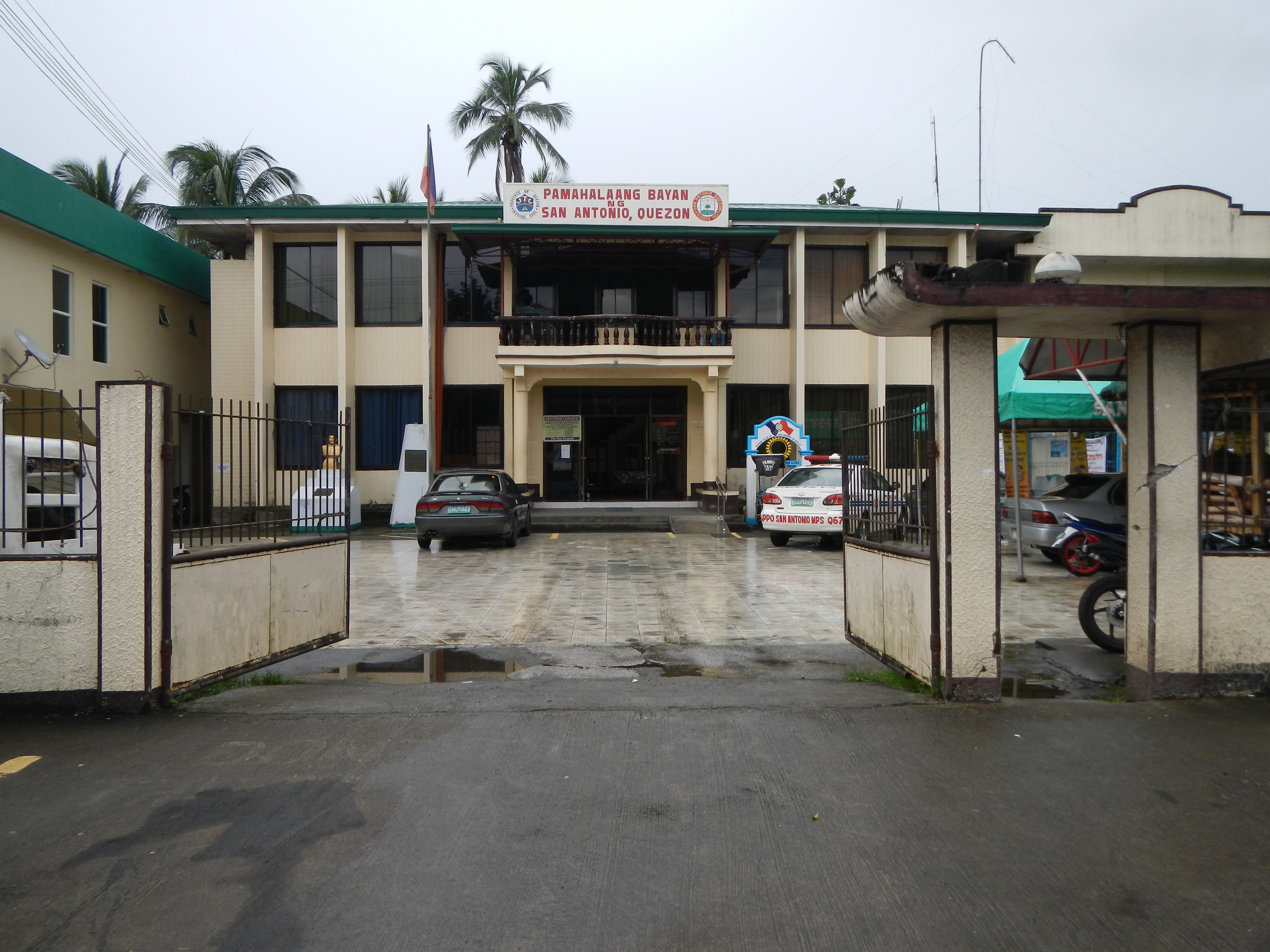 Upload Wizard photos of - San Antonio, Quezon[1] (a third class municipality in the province of Quezon,[2] Philippines 2007 census, a population of 30,023 people politically subdivided into 20 barangays.[3] San Antonio Municipal Hall Poblacion San Antonio Coordinates: 13°53'45"N 121°17'35"E).